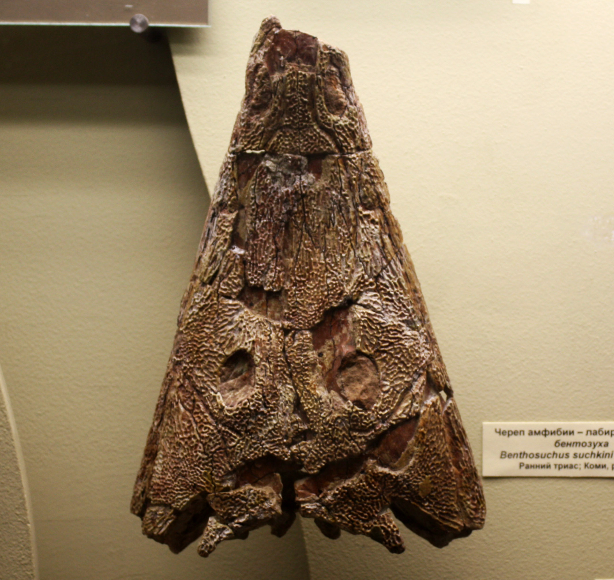 Benthosuchus skull.